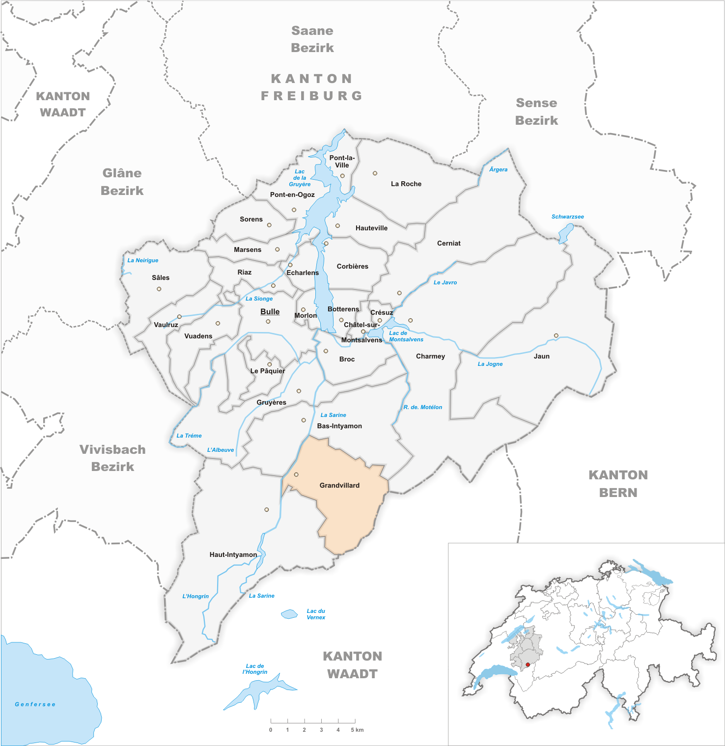 Municipality Grandvillard